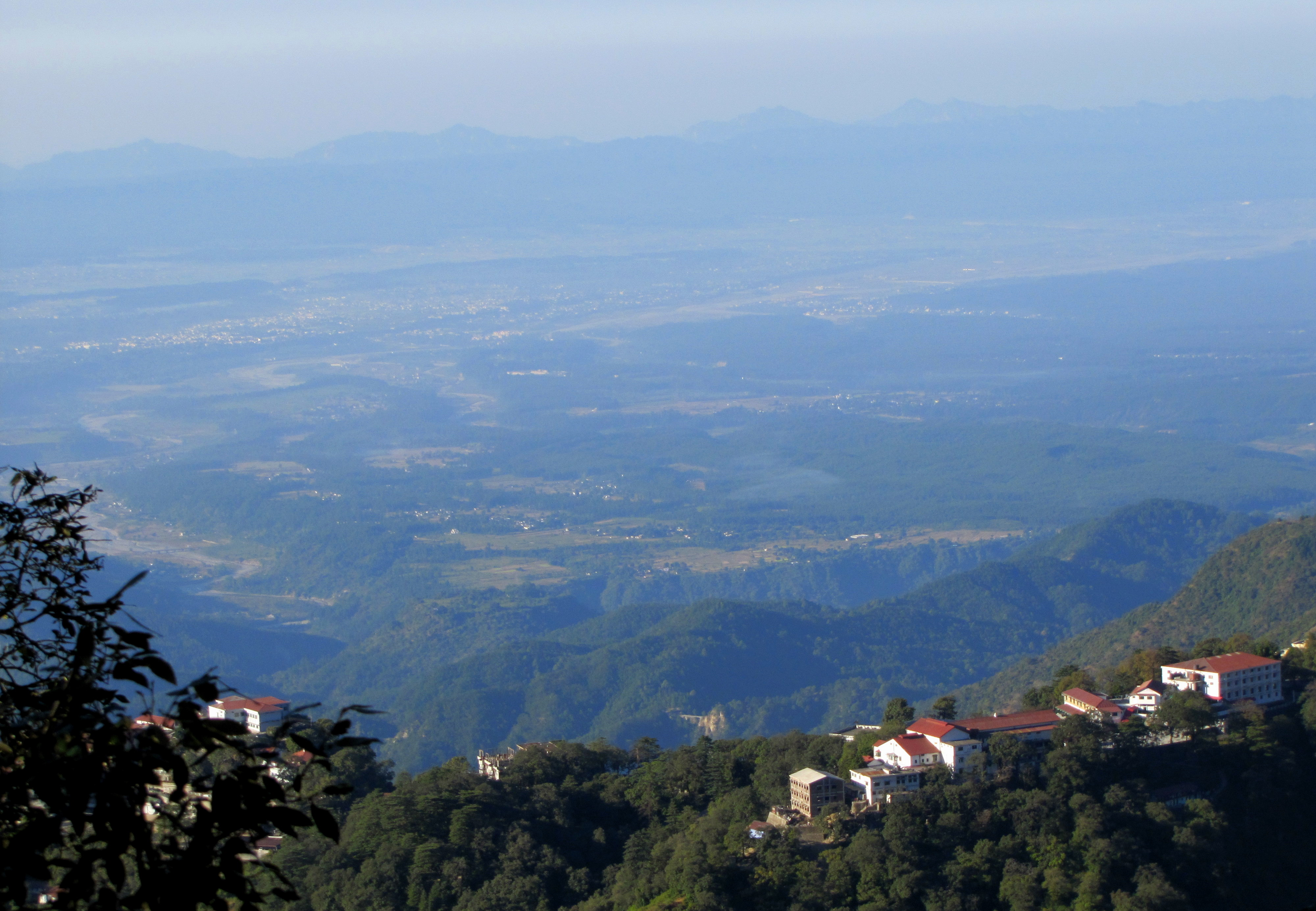 Uttarakhand (Hindi: उत्तराखण्ड, Sanskrit:उत्तराखण्डराज्यम्), formerly Uttaranchal, is a state in the northern part ofIndia. Uttarakhand is mainly known for its natural beauty of the Himalayas, the Bhabhar and the Terai. On 9 November 2000, this 27th state of the Republic of India was carved out of the Himalayan and adjoining northwestern districts of Uttar Pradesh. Two important rivers of India originate in the region, the Ganga at Gangotri and the Yamuna at Yamunotri. It is home to many holy Hindu temples and pilgrimage centres found throughout the state. The natives of the state are generally called either Garhwali or Kumaoni depending on their place of origin. According to the 2011 census of India, Uttarakhand has a population of about 10 million.